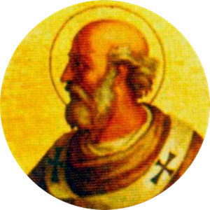 Portait of Pope Martin I in the Basilica of Saint Paul Outside the Walls, Rome